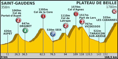 Profil of the 14th stage of the Tour de France 2011